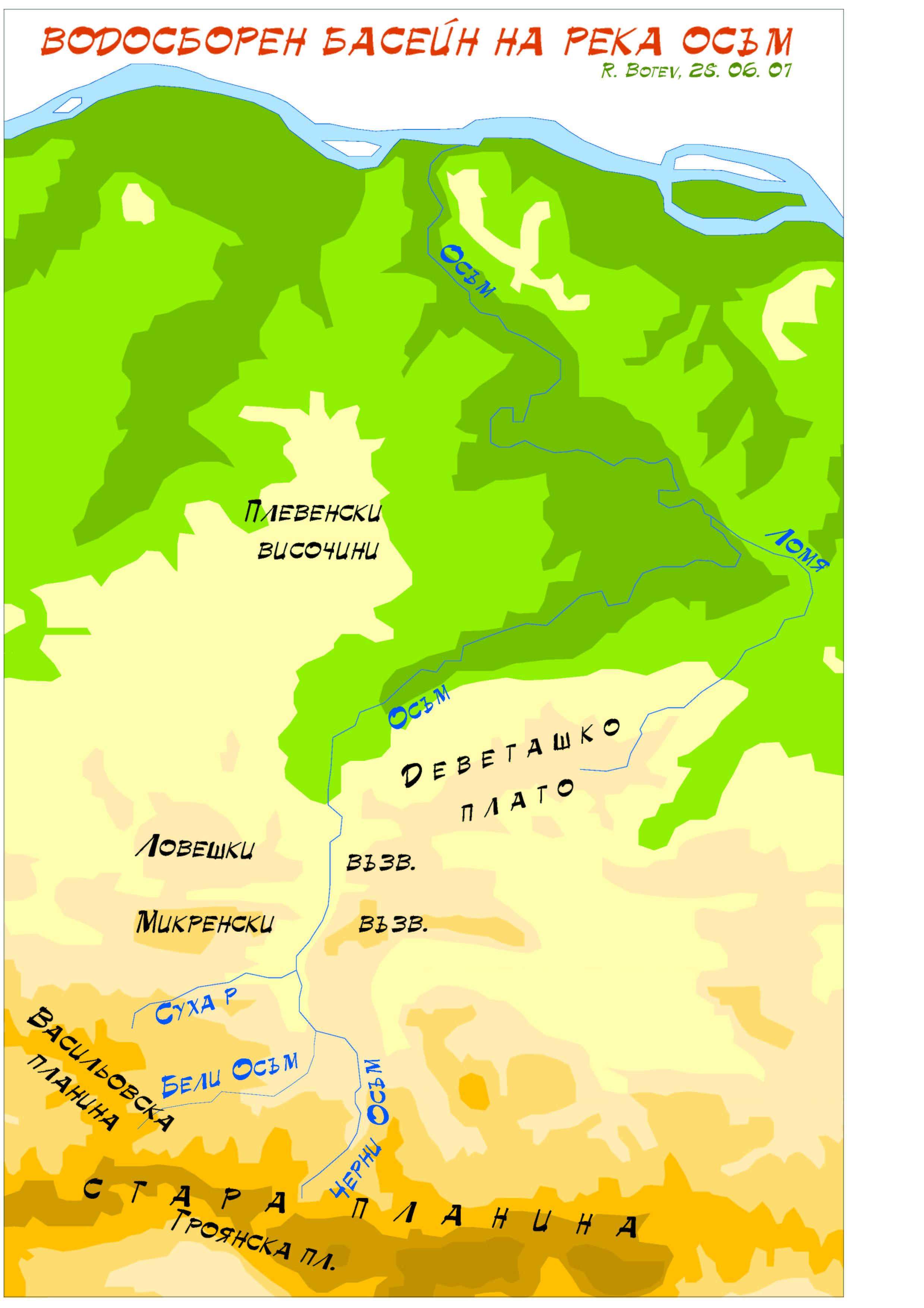 Map of Osam Bassin in Bulgaria